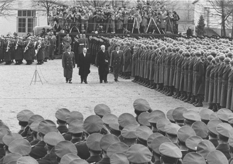 Andernach, Jan. 20.[19]56. On Jan 20.56. Chancellor Konrad Adenauer visited for the first time the newly established German Army at Andernach. The Chancellor reviewed Army, Navy and Airforce groups on the camp grounds and adressed the German Soldiers in a short speech after he was introduced by Defense Minister Theodor Blank. Chancellor Adenauer accompanied by Defense Minister Theodor Blank, and Camp Commander Col. Phiilip (far right) review troops. H-20041 H-20042